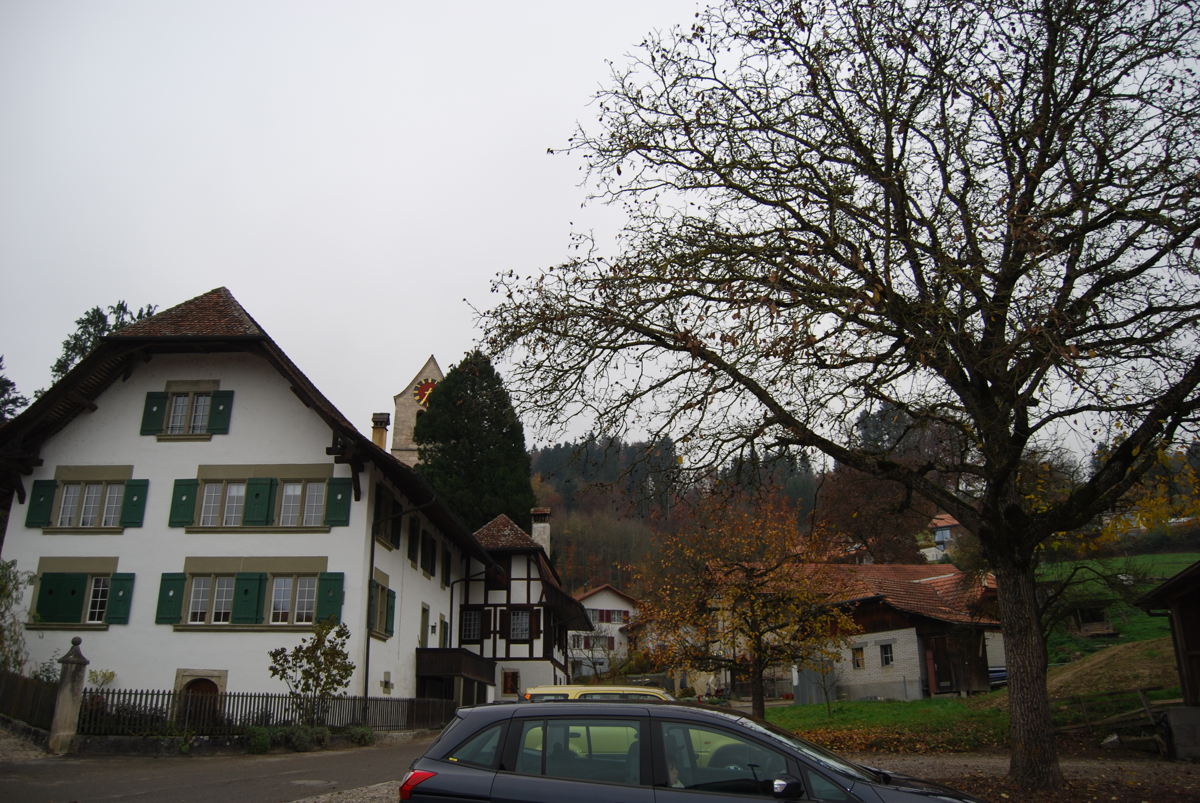 Aetingen, canton of Solothurn, Switzerland